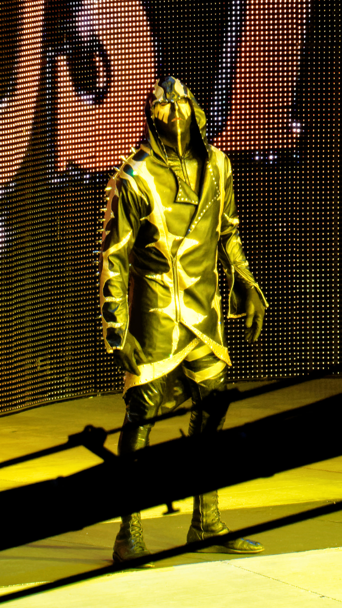 Goldust on Raw in March, 2015.